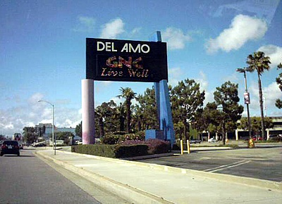 A roadside sign for Del Amo Fashion Center in Torrance on East Carson Street.